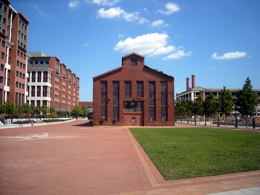 Building 170, a former electrical substation, located behind the United States Department of Transportation headquarters in Washington, D.C. The renovated building is designated as a contributing property to the Washington Navy Yard Annex Historic District, listed on the National Register of Historic Places in 2008. The open space (foreground) beside Building 170 is now known as Tingey Plaza.